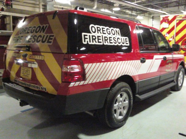 Oregon Fire Dept Rescue